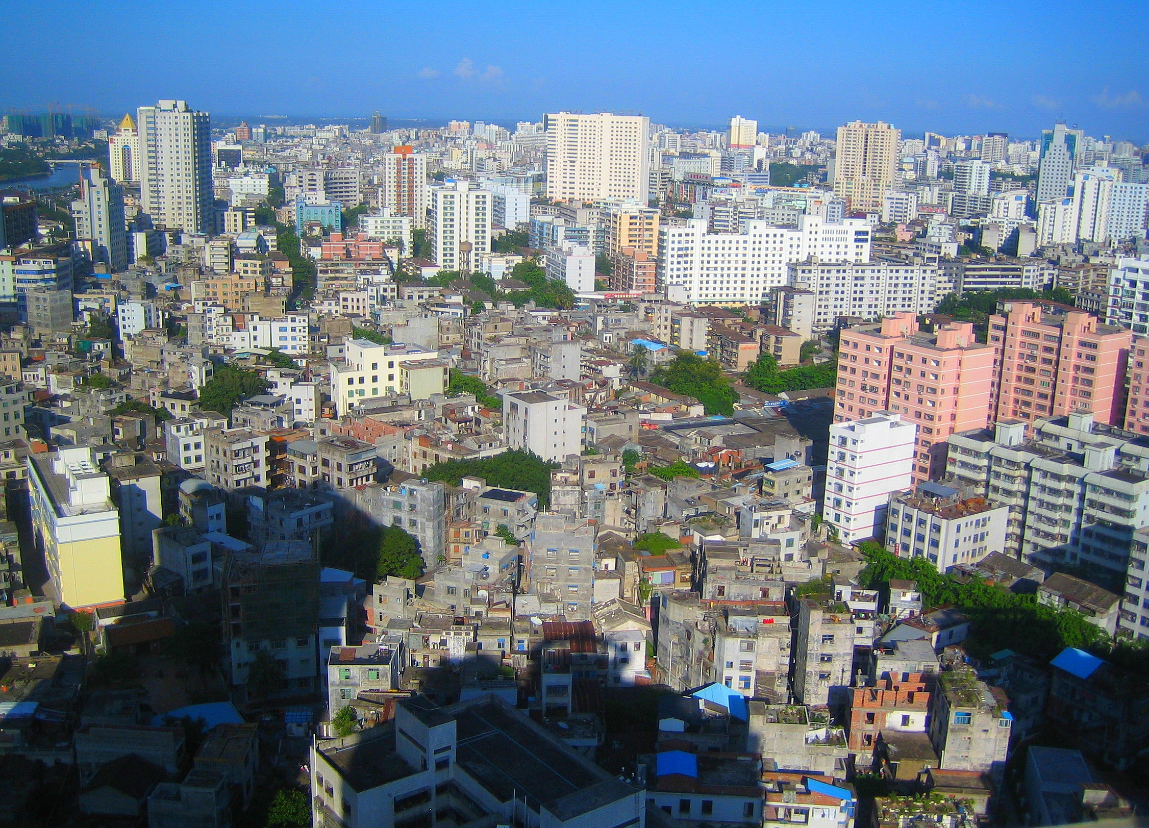 Haikou skyline, Hainan Province, China